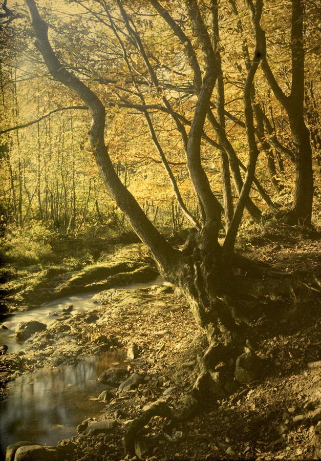 Paul Sano, Source of the Gileppe river, c. 1913